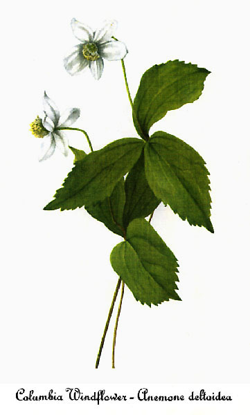 Watercolor painting of Anemone_deltoidea.